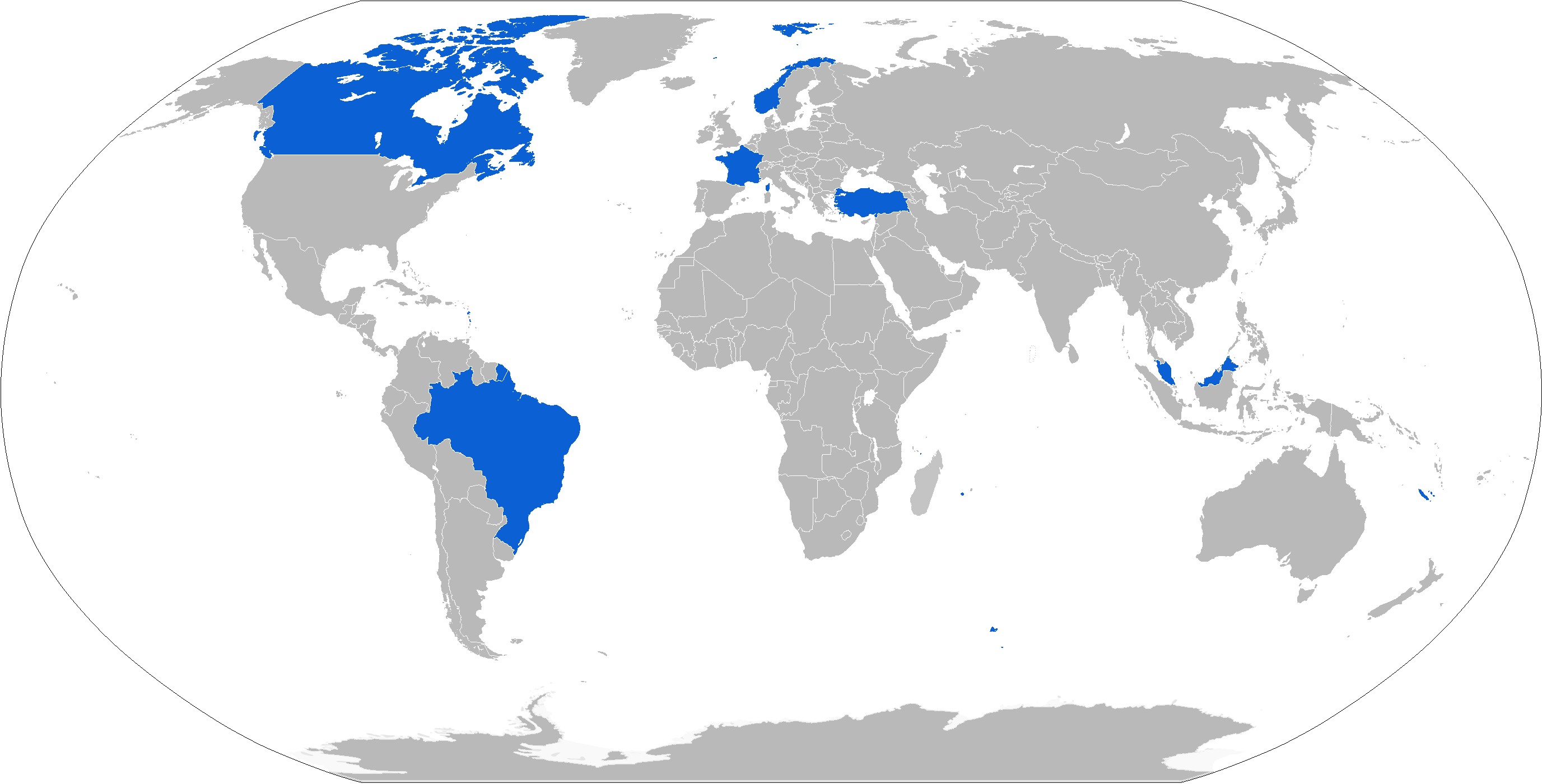 Map with ERYX operators in blue